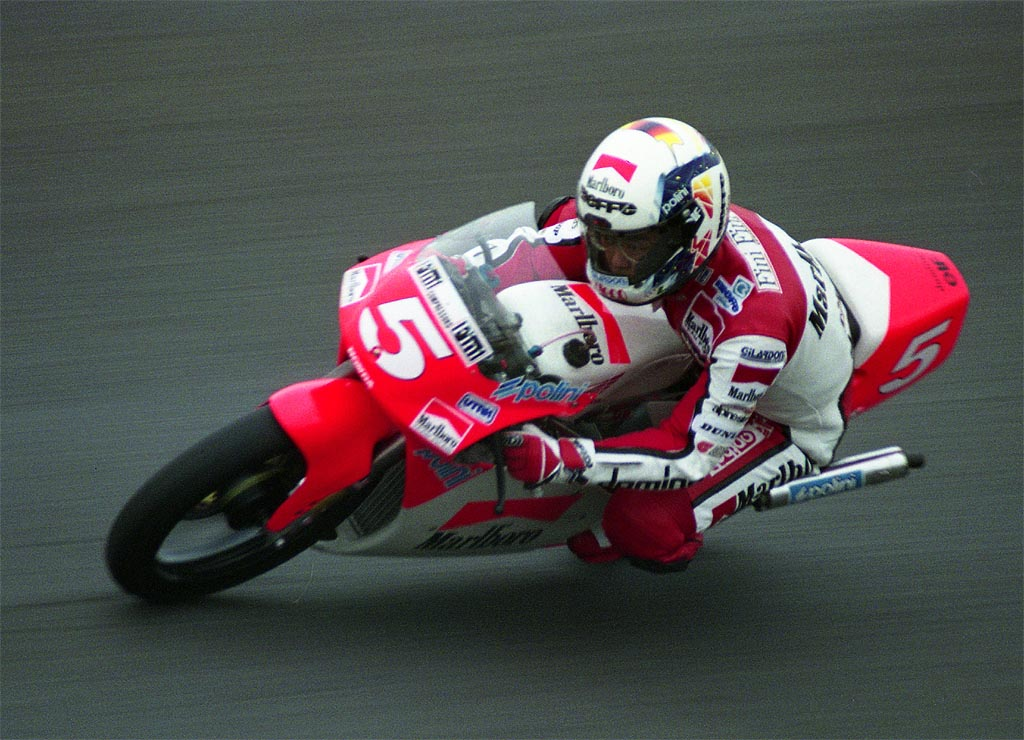 Noby Ueda, in Japanese Grand Prix 1992